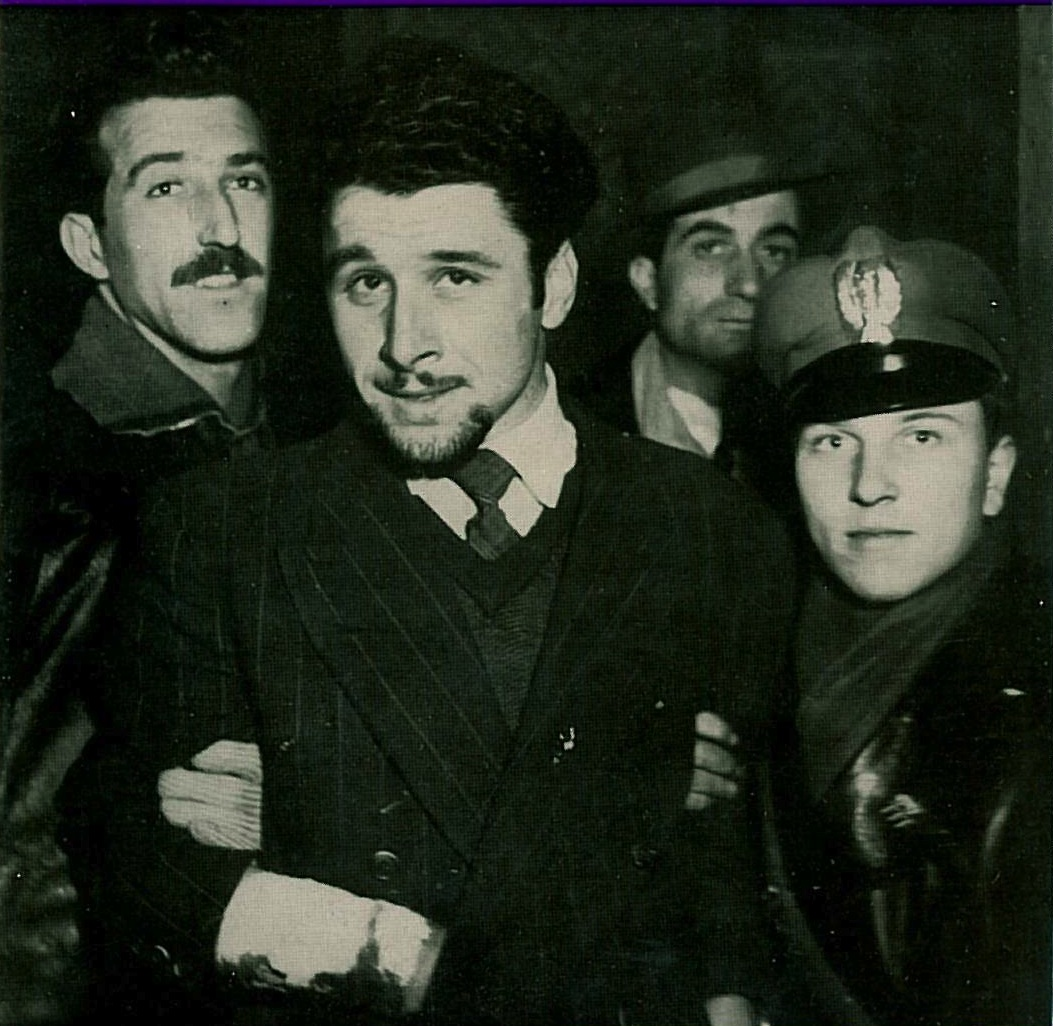 The bandit Ezio Barbieri captured by Italian police, the 1946-02-26